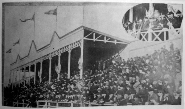 View of the Club Gimnasia y Esgrima stadium's (currently known as "Estadio GEBA") grandstands in 1921, during an association football match.